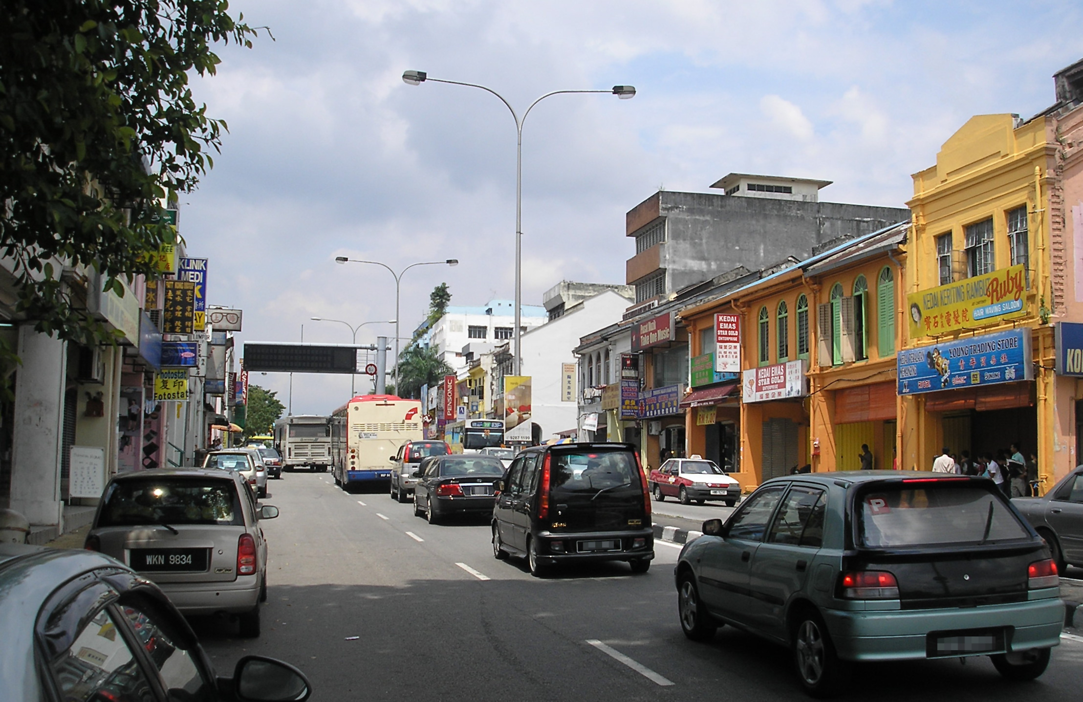 The main street (Jalan Pudu) of Pudu, Kuala Lumpur, Malaysia, towards the southeast from the intersection with Jalan Pasar (Market Road) and Jalan Sungai Besi (Sungai Besi Road) (both behind).